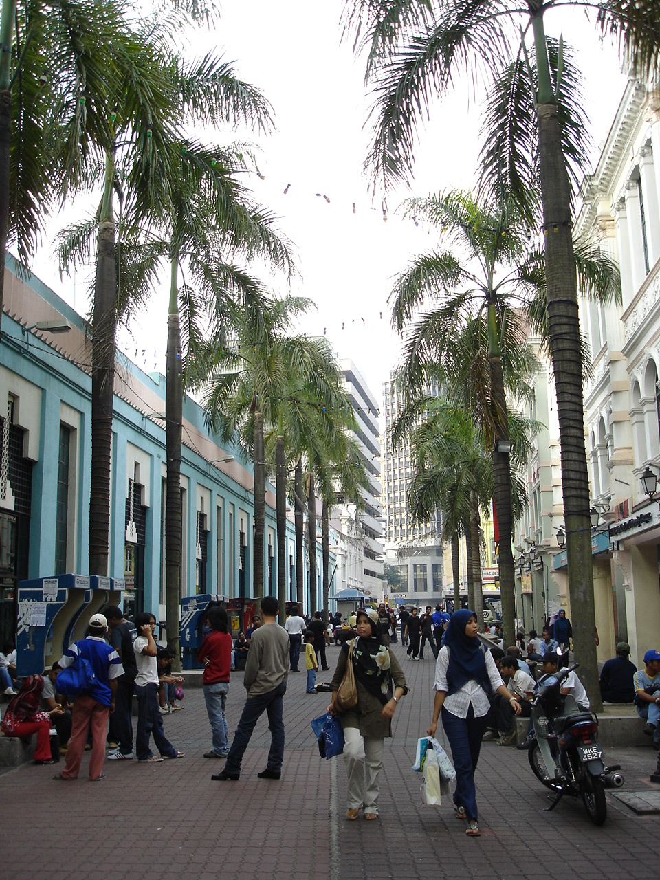 The pedestrian mall adjacent to Central Market in Kuala Lumpur.